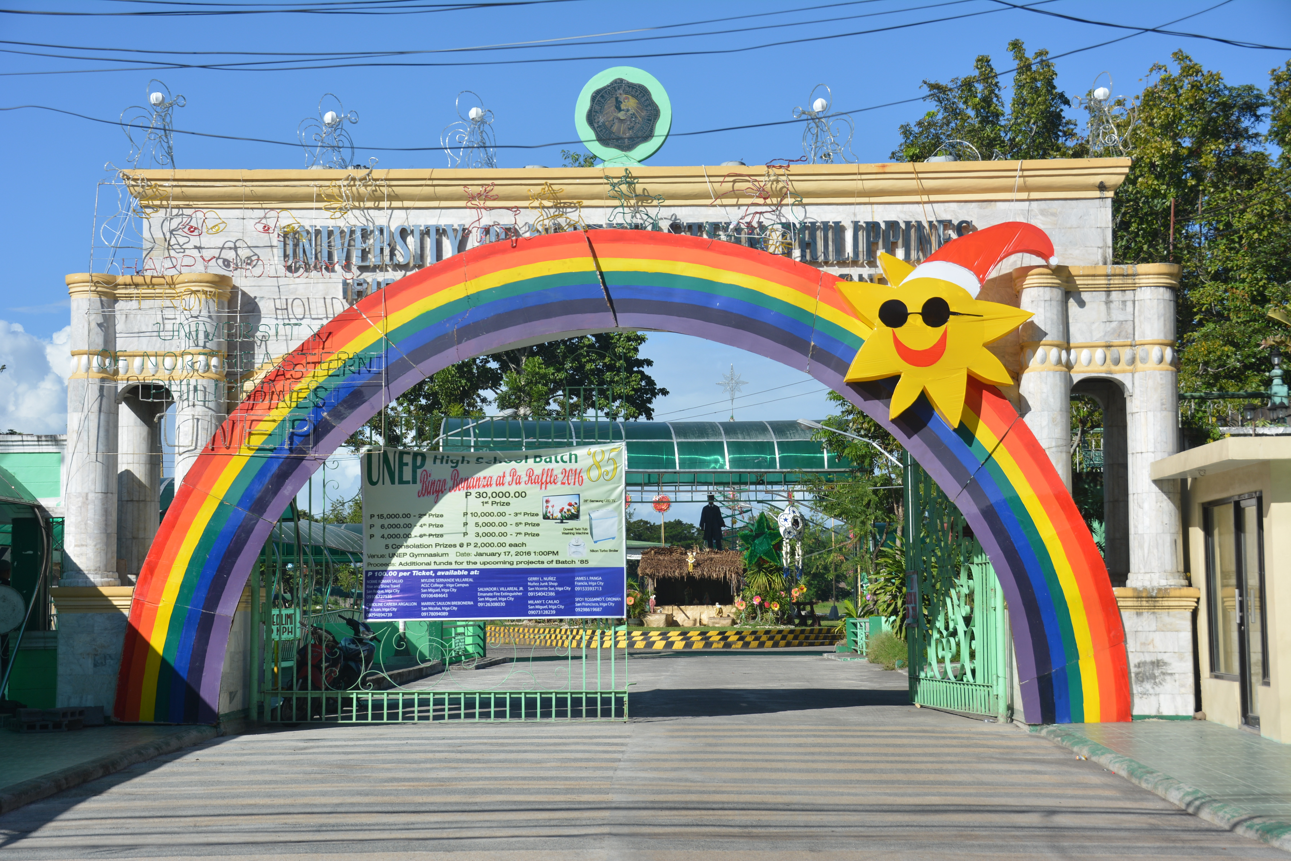 University Of Northeastern Philippines in Iriga CIty